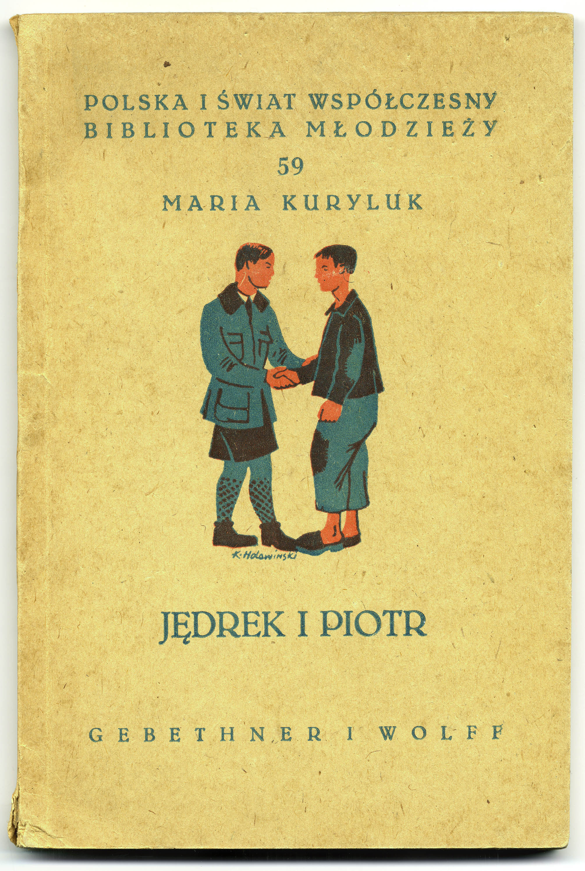 The cover of Jedrek i Piotr, a book by Maria Kuryluk.